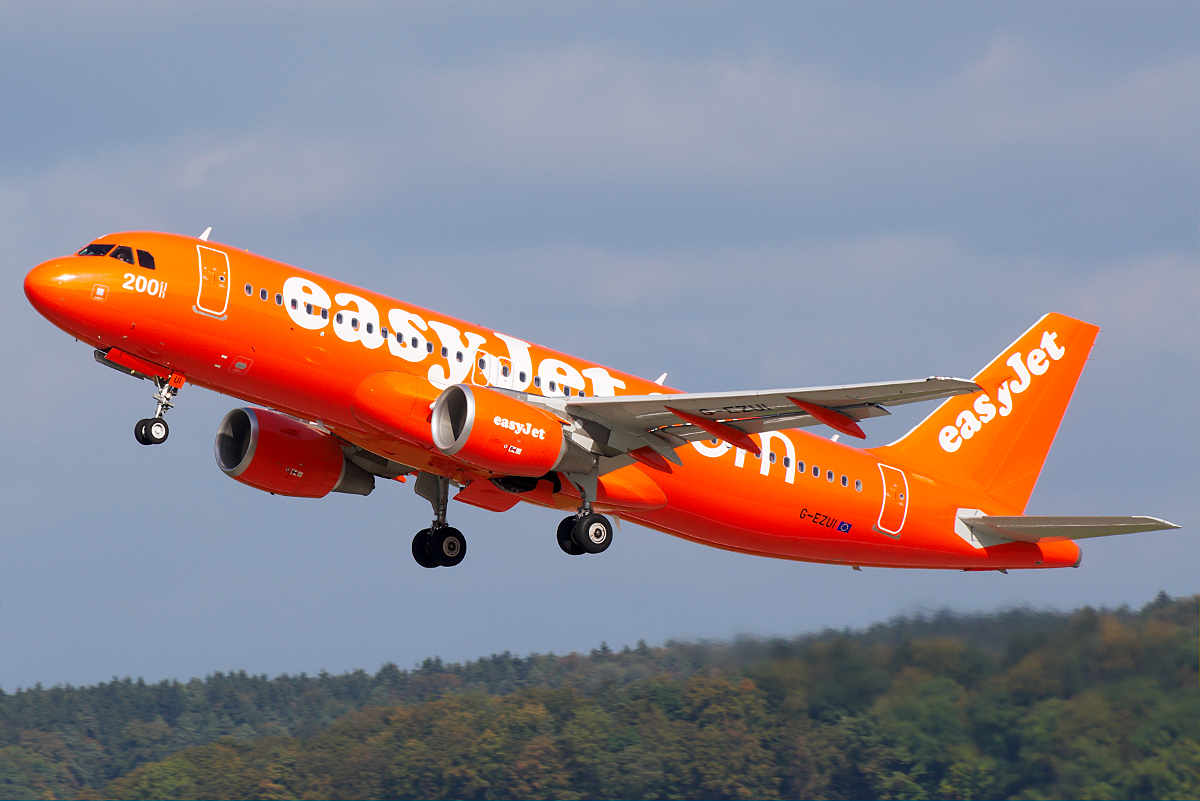 The 200th Easyjet Airbus is painted in inverse colours (Airbus A320-200)